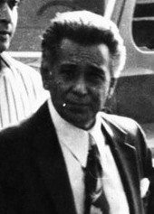 An FBI photograph of Nicky Scarfo and crew walking on the street